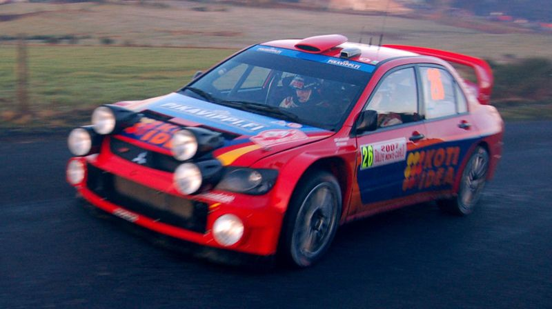 Gardemeister in Rally de Monte-Carlo 2007